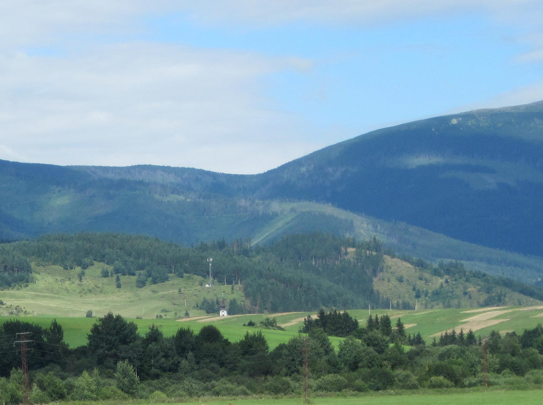 Zdiarske sedlo from Pohorela